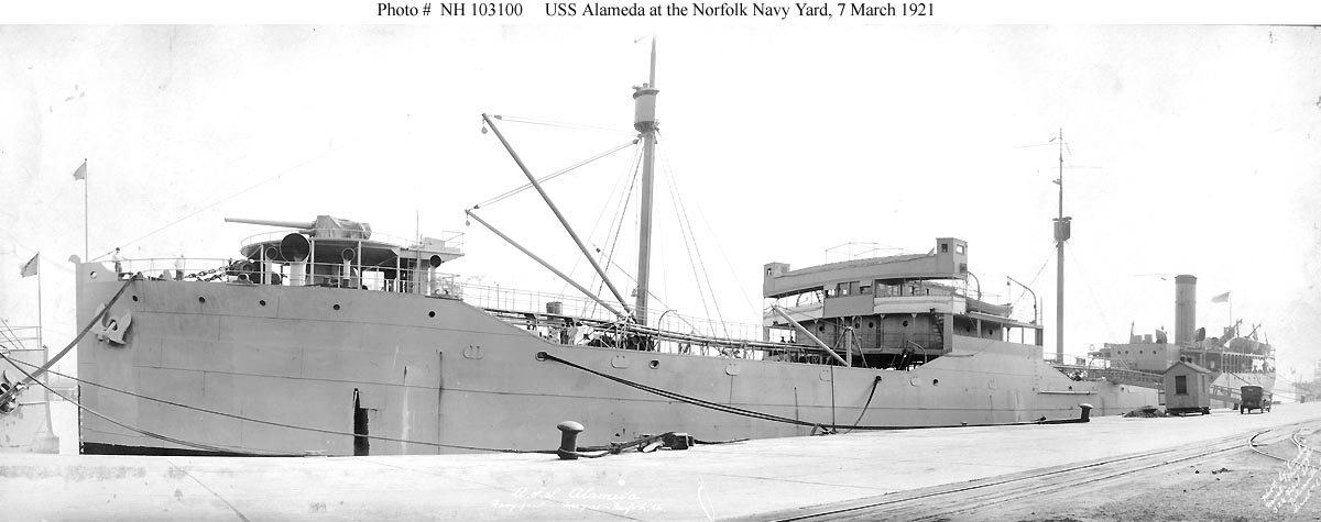 United States Navy tanker USS Alameda (AO-10) at the Norfolk Navy Yard in Portsmouth, Virginia